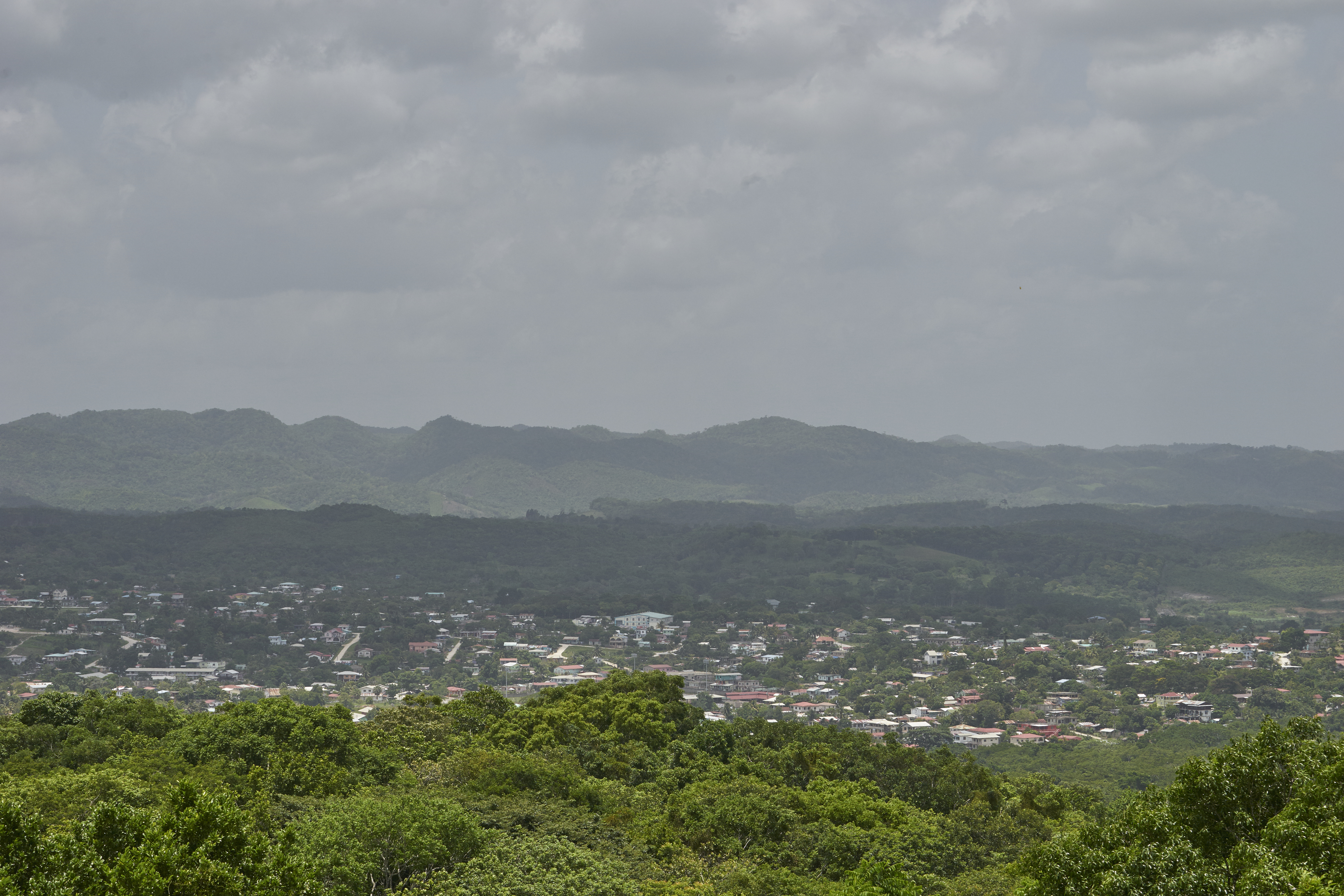 Benque Viejo del Carmen seen from El Castillo at Xunantunich Archaelogical site, Belize The making of this document was supported by the Community-Budget of Wikimedia Germany.